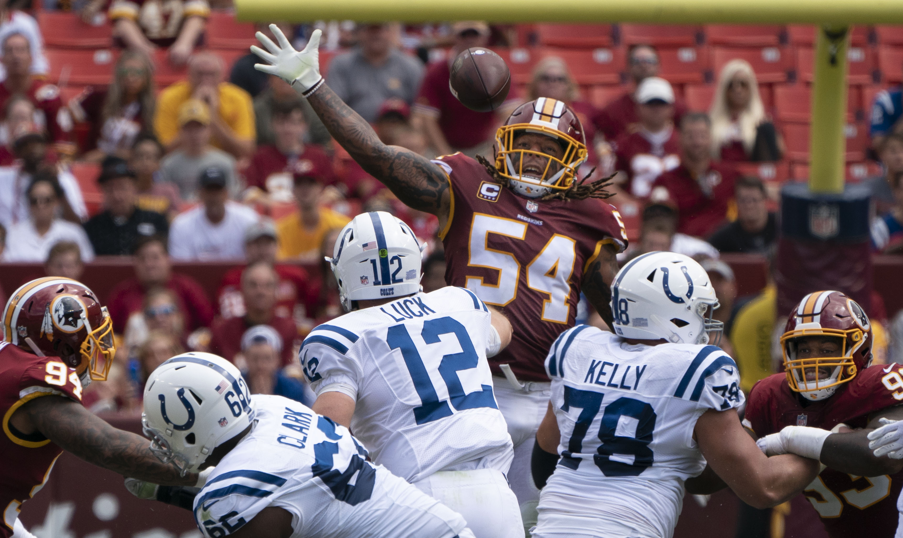 Colts at Redskins 09/16/18